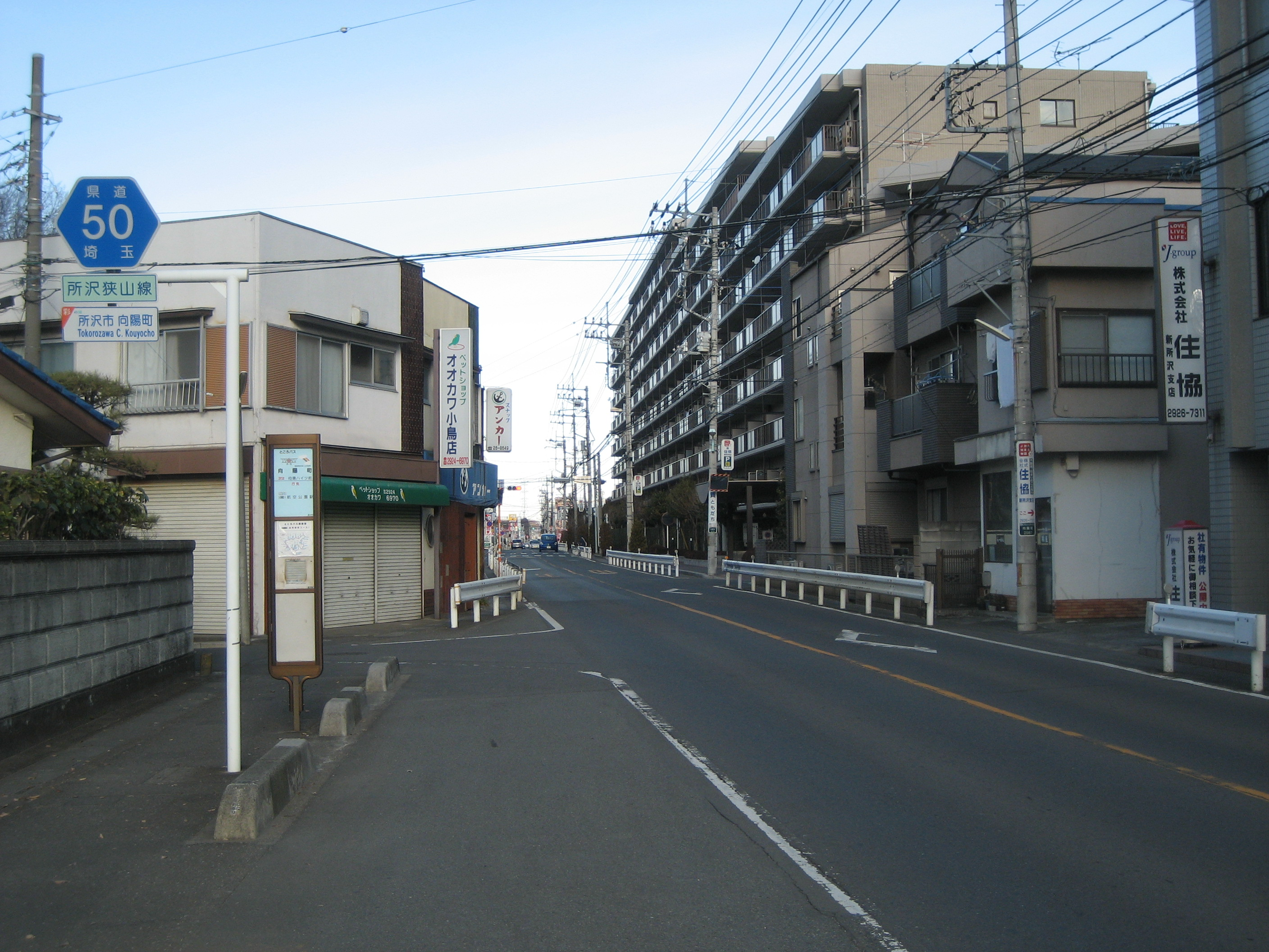 The Saitama Prefectural Road Route 50 in Koyocho, Tokorozawa City